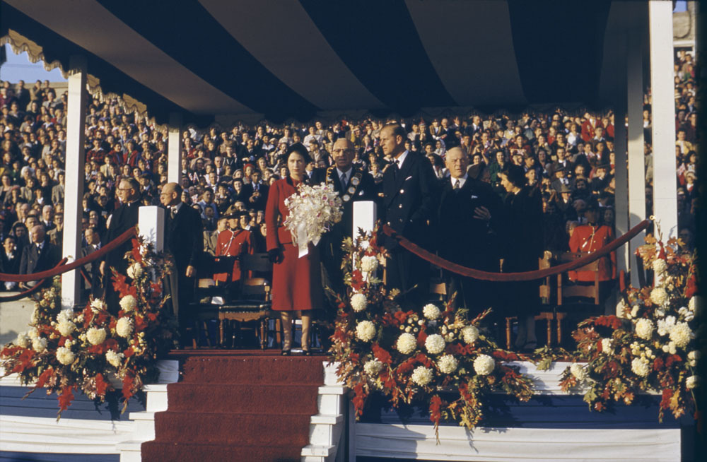 Title / Titre : Princess Elizabeth holding flowers on stage with Prince Philip and other unidentified men / La princesse Elizabeth tenant des fleurs sur une estrade avec prince Philip et plusieurs hommes Creator(s) / Créateur(s) : Unknown / Inconnu Date(s) : 1951 Reference No. / Numéro de référence : MIKAN 4301669, 4313979 Location / Lieu : Canada Credit / Mention de source : Library and Archives Canada, e010975719 / Bibliothèque et Archives Canada, e010975719